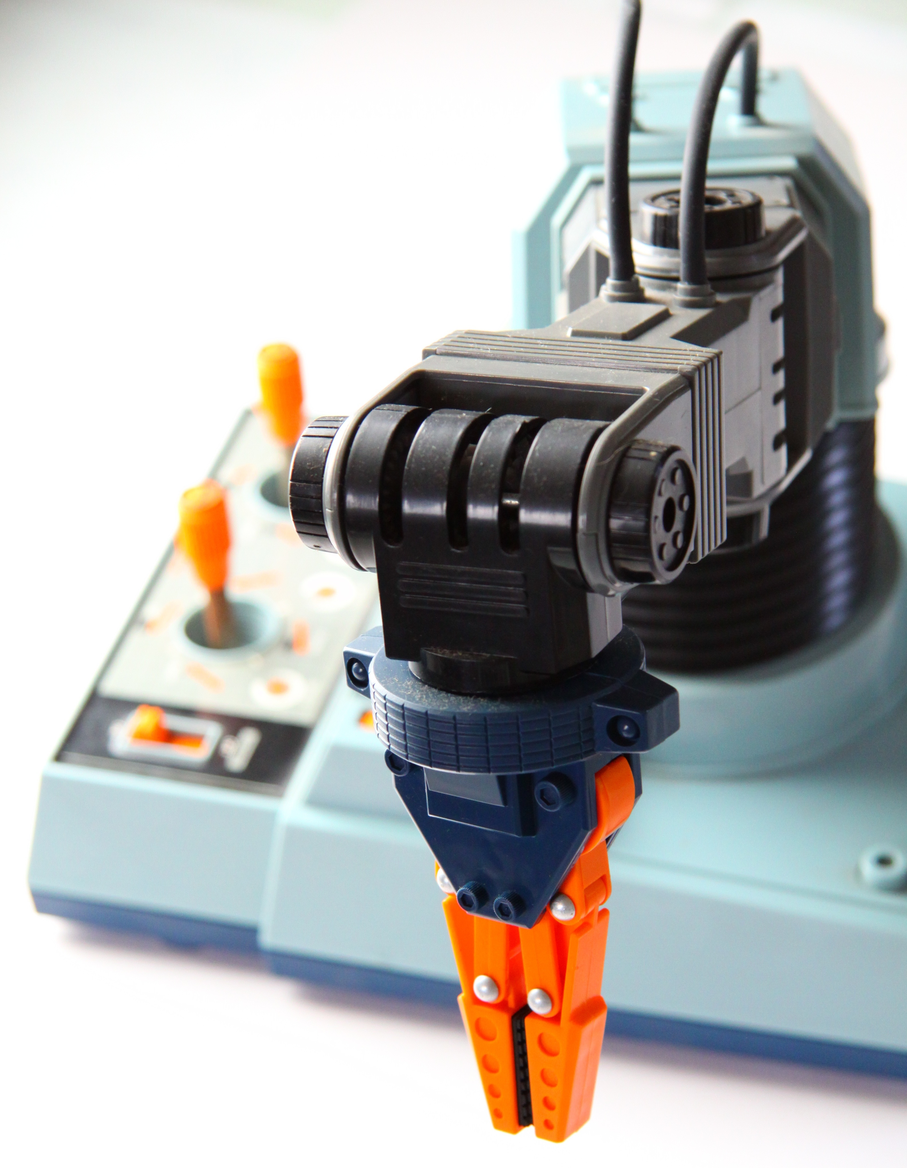 A TOMY Armatron toy robot with accessories